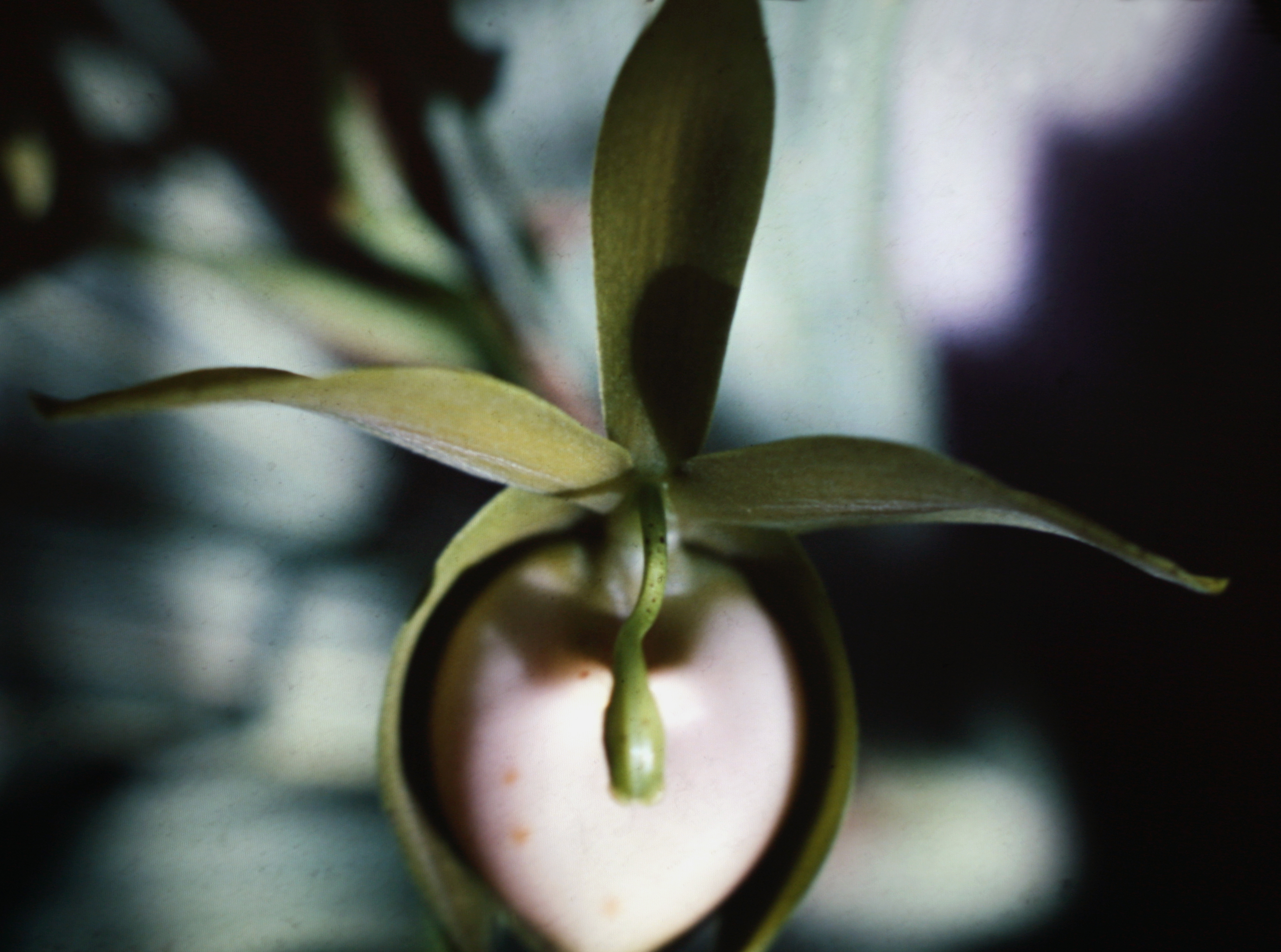 Cycnoches haagii, male flower. Suriname.